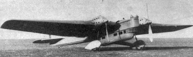 Amiot 140 photo from L'Aerophile Salon 1932